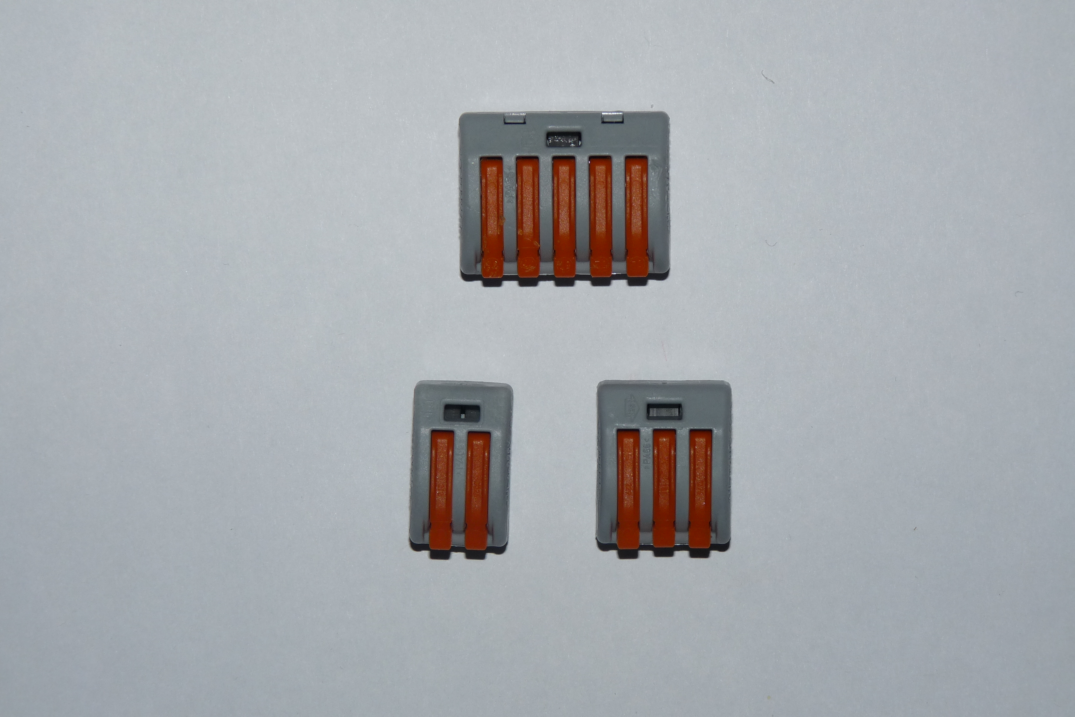 Wago terminals type 222. Well, I have only positive reviews about them. Thanks to them, too much time were saved... No screws, no numb hands, no traumas cause of working by screwdriver "on air". And what surprised me, the able to handle 20 Amps without any heating or melting.